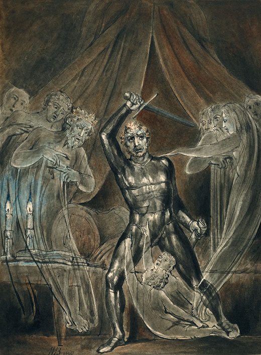 Richard III and the Ghosts